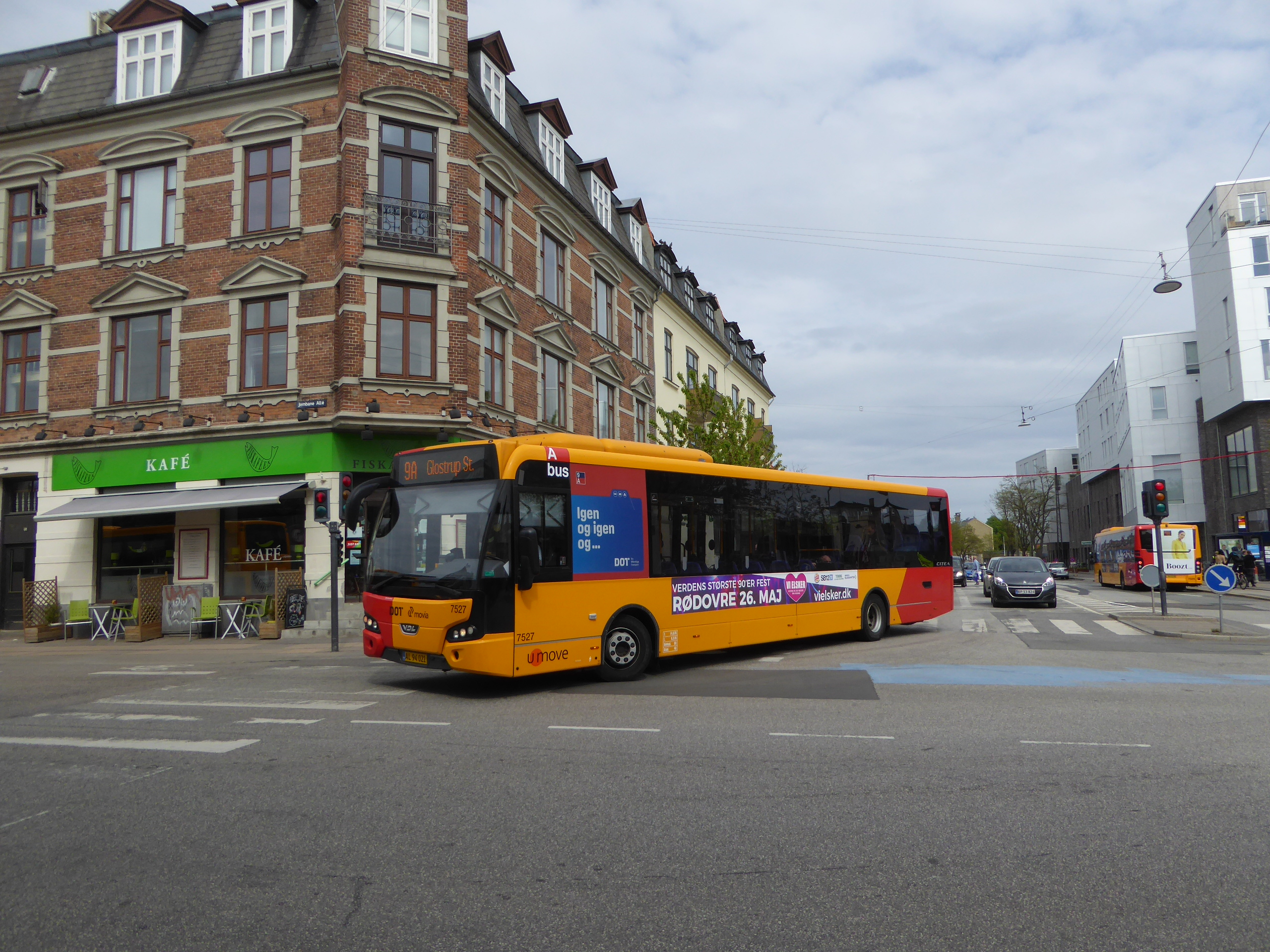 Movia bus line 9A at the corner of Jernbane Allé and Vanløse Allé at Vanløse Station in Copenhagen.